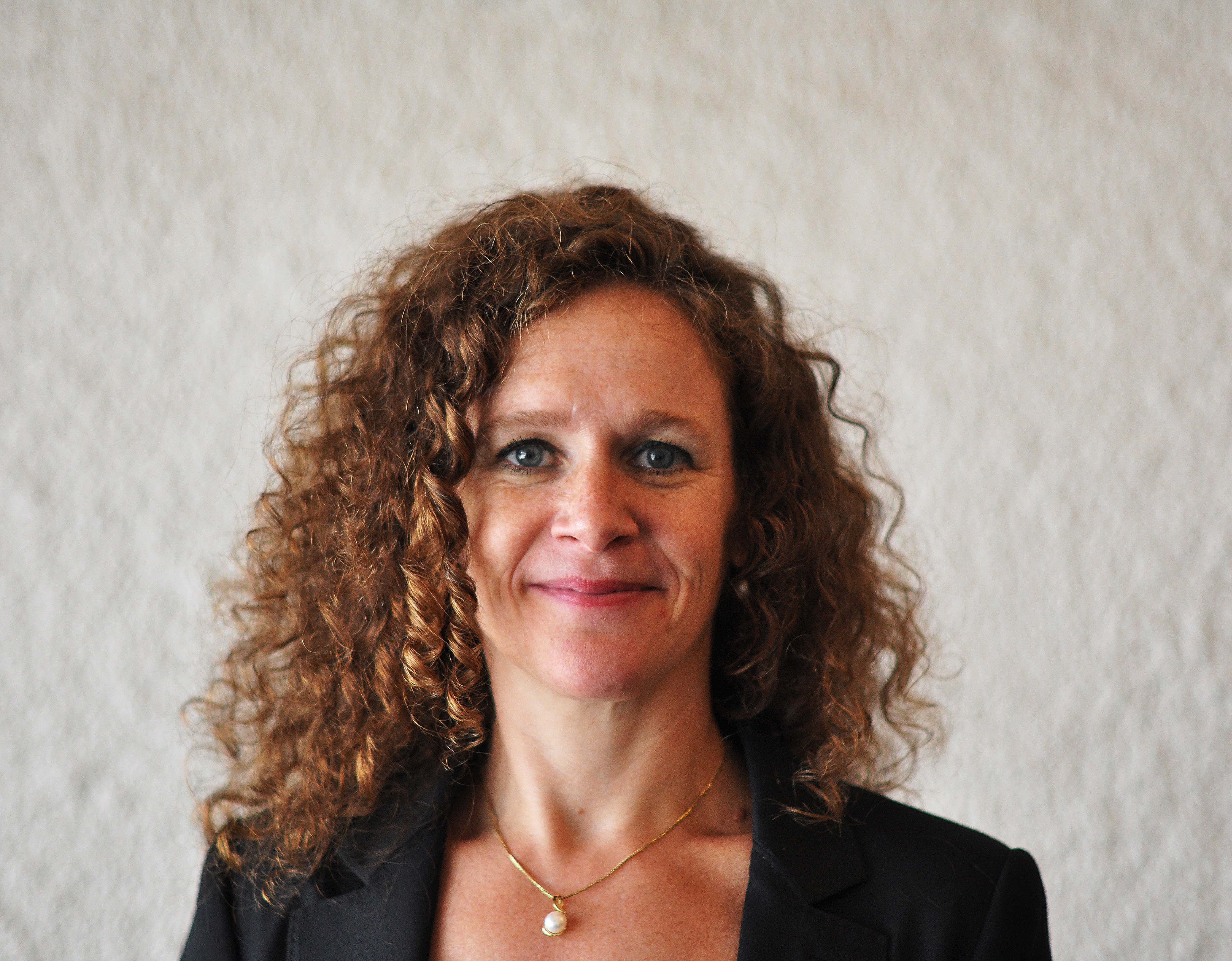 Sophie in't Veld, Dutch parlamentarian and Chair of the European Parliament platform for secularism in politics, during a break at the World Humanist Congress 2011 in Oslo.